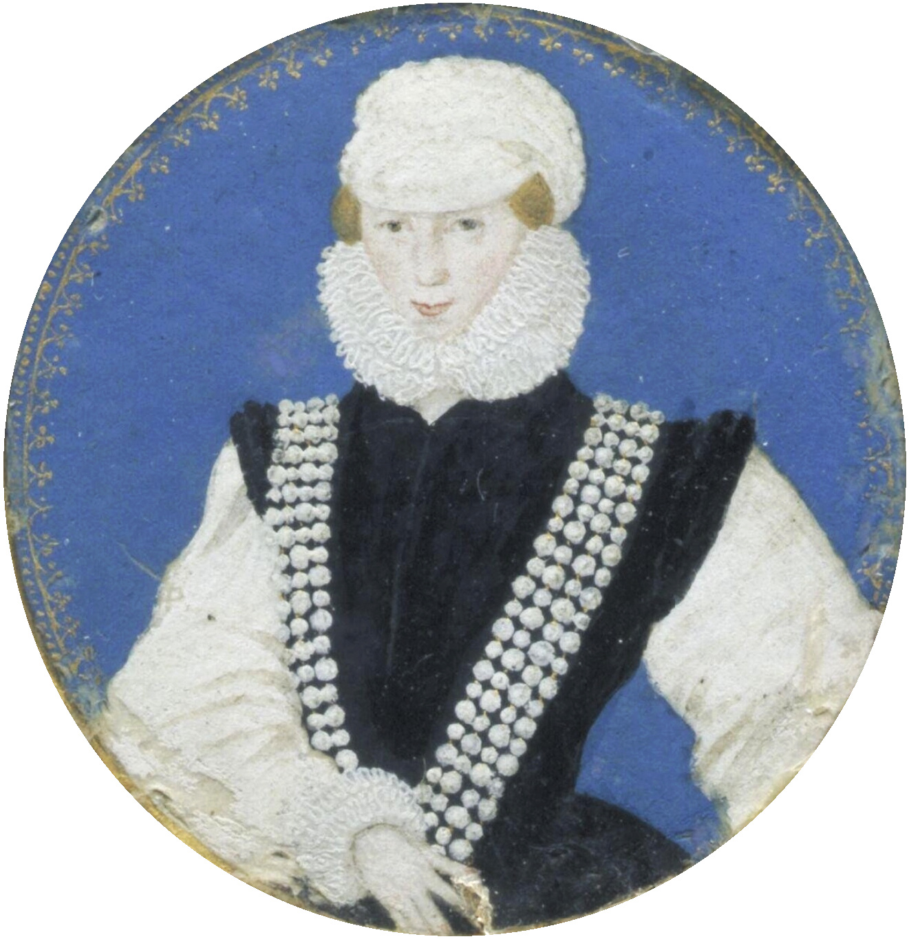 Portrait miniature of Mary Dudley Lady Sidney (circa 1531 date QS:P,+1531-00-00T00:00:00Z/9,P1480,Q5727902-1586)